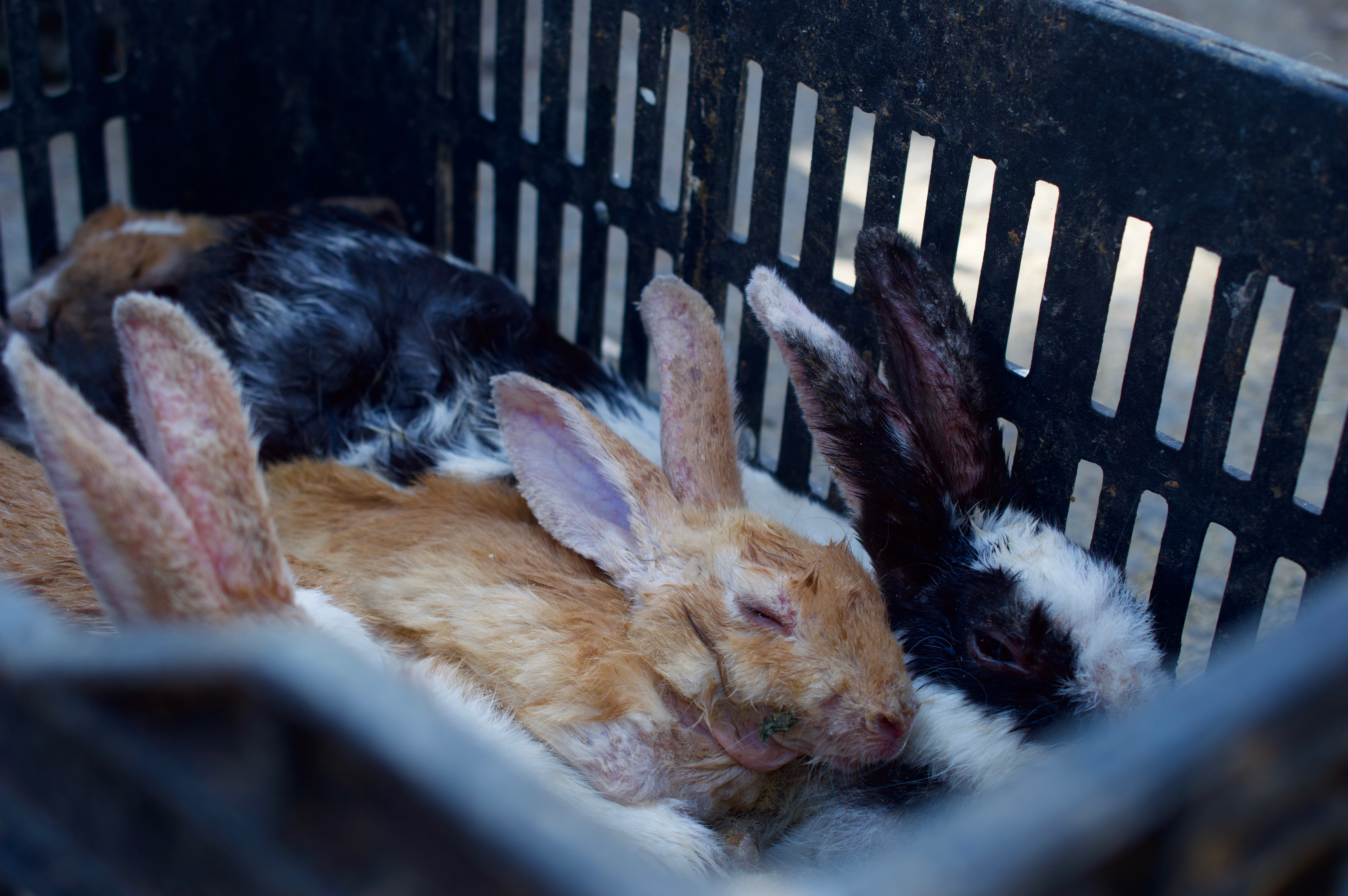 Rabbits suffering at the pet market in Erbil, Iraqi Kurdistan